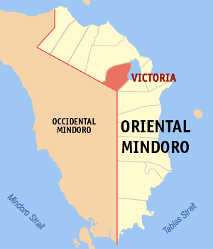 Map of Oriental Mindoro showing the location of Victoria